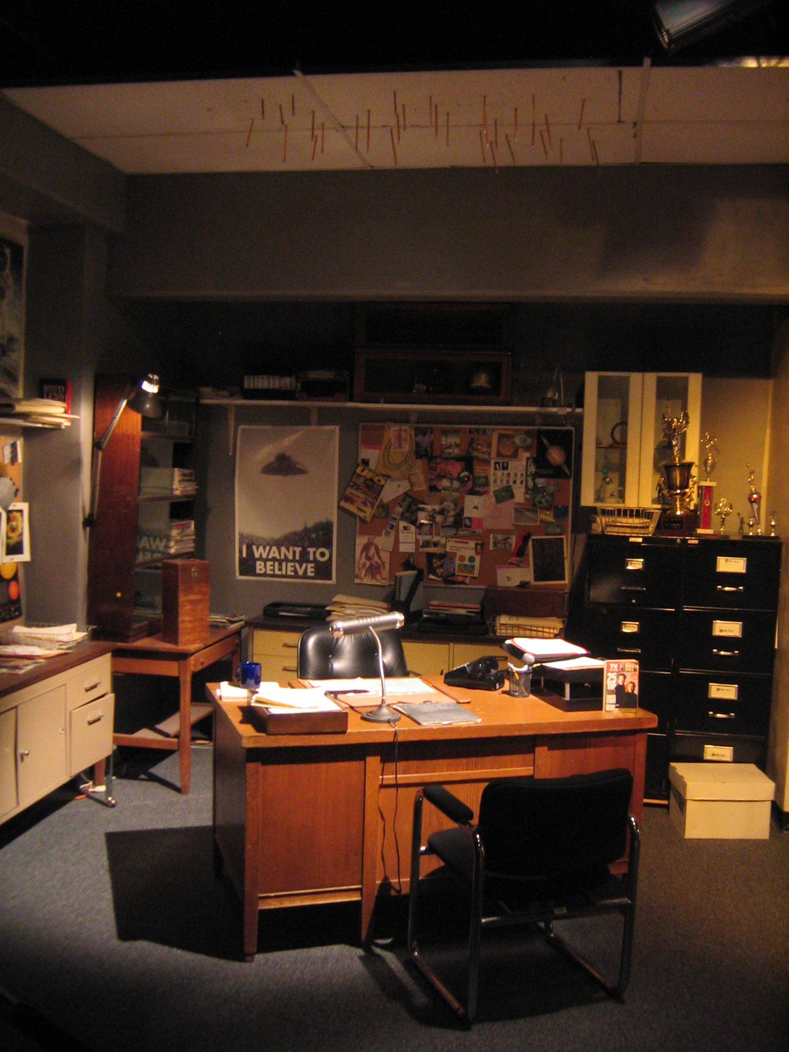 The set in The X-Files containing Fox Mulder's office.